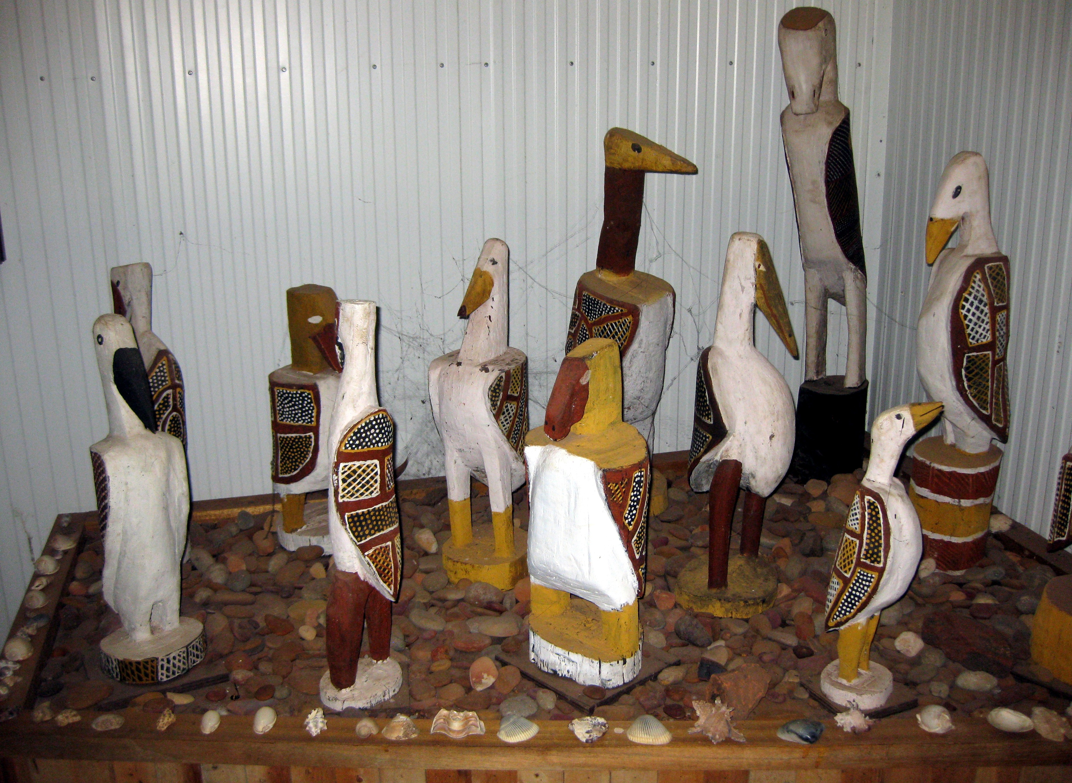 Aboriginal bird carvings created by the Tiwi people of Bathurst Island